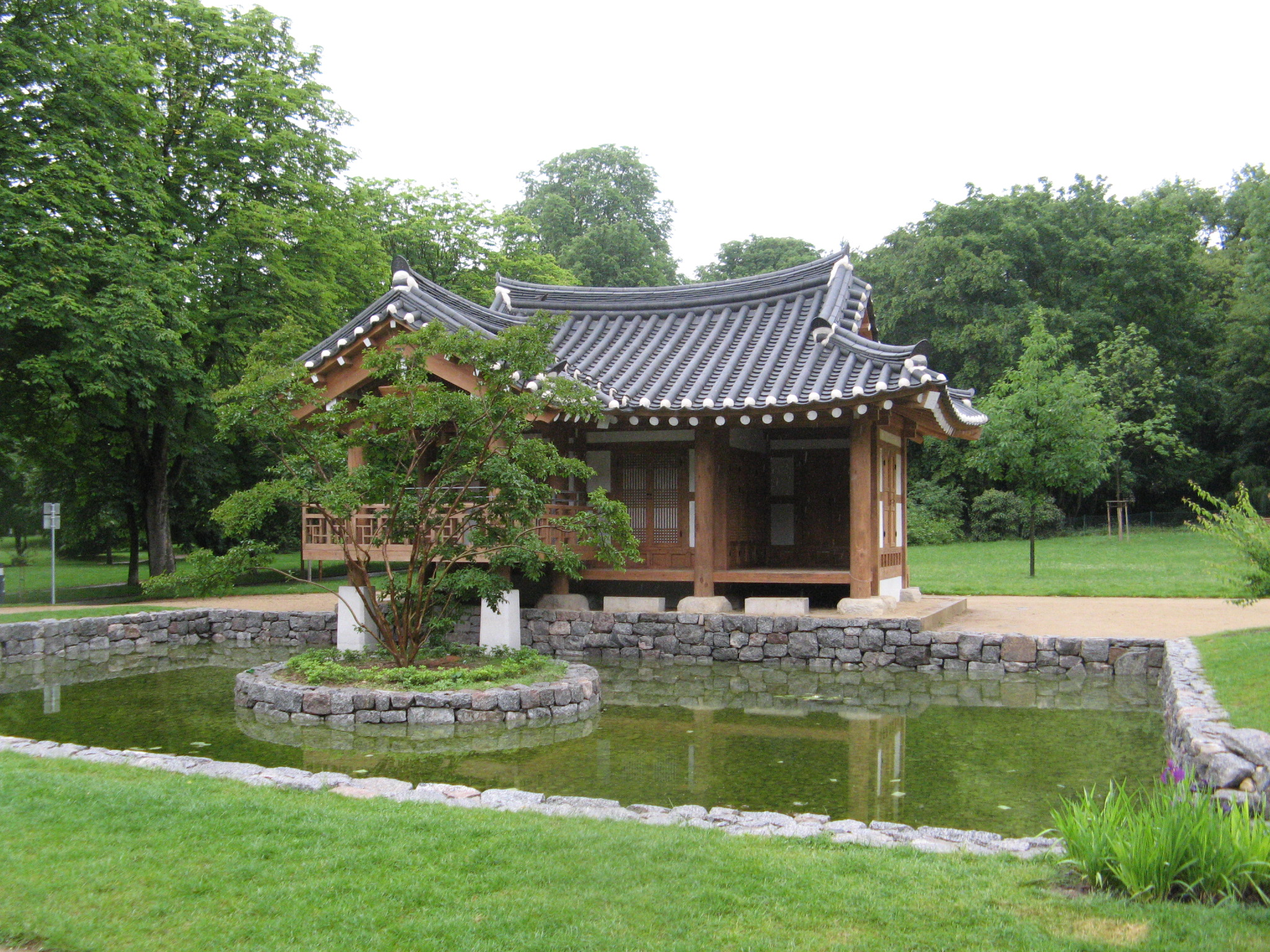 Korean garden house in the Grüneburgpark. Gift from South Korea when it was guest country at the frankfurt book fair 2005